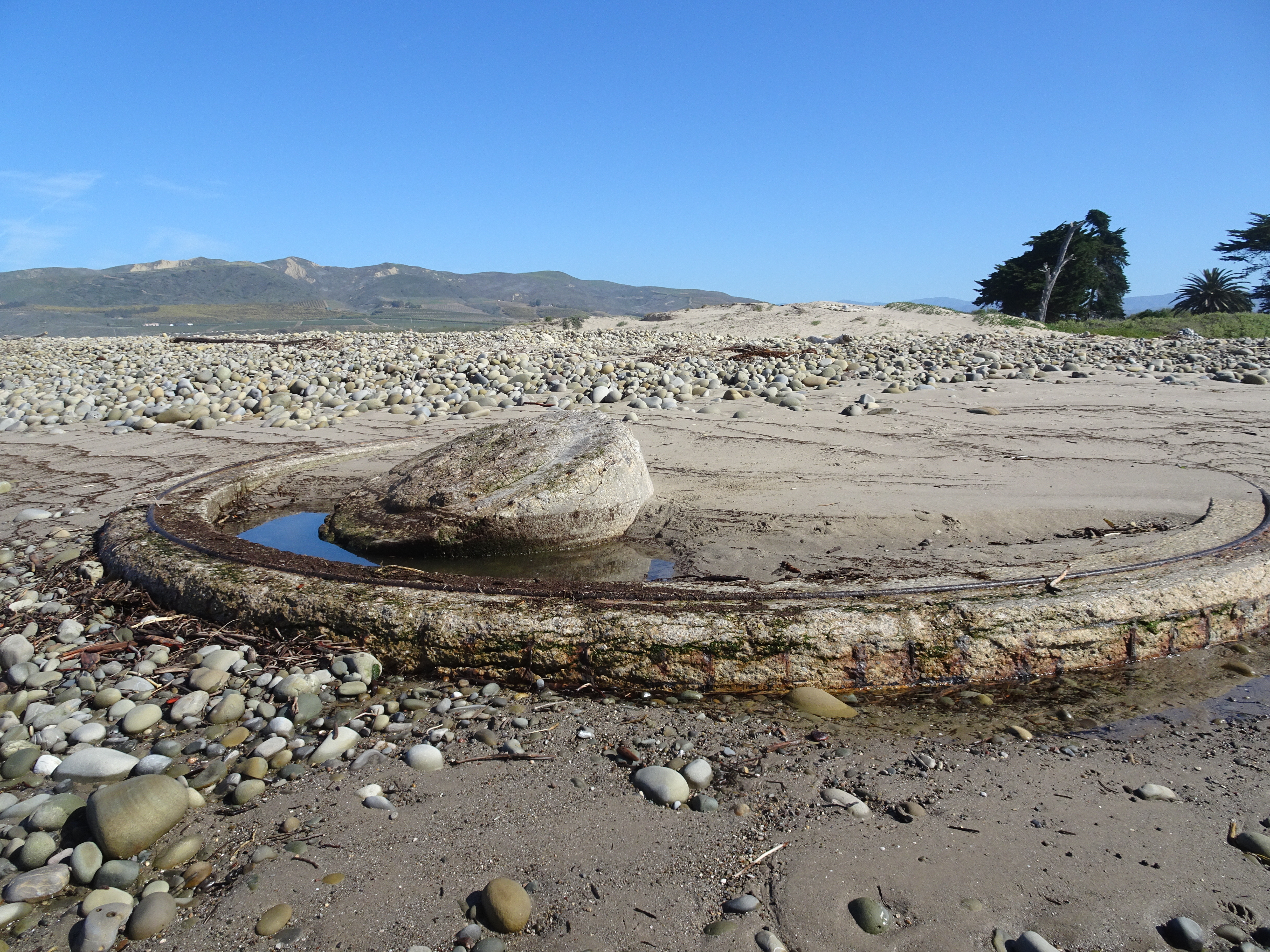 Artillery mount for artillery gun at Camp Seaside, located at the mouth of the Ventura River, west side